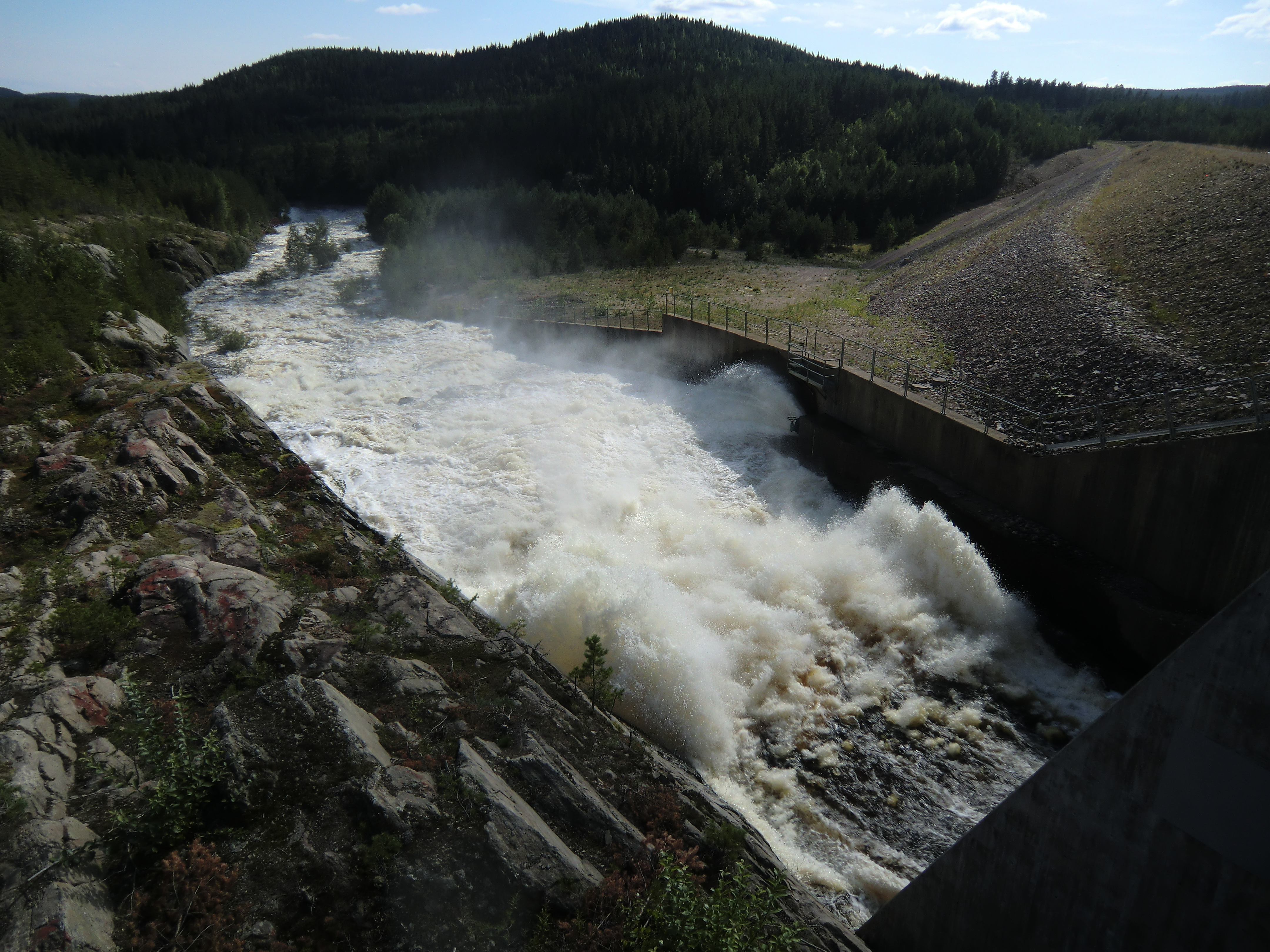 Skallbergsdam in river Rottnan in Värmland, Sweden.